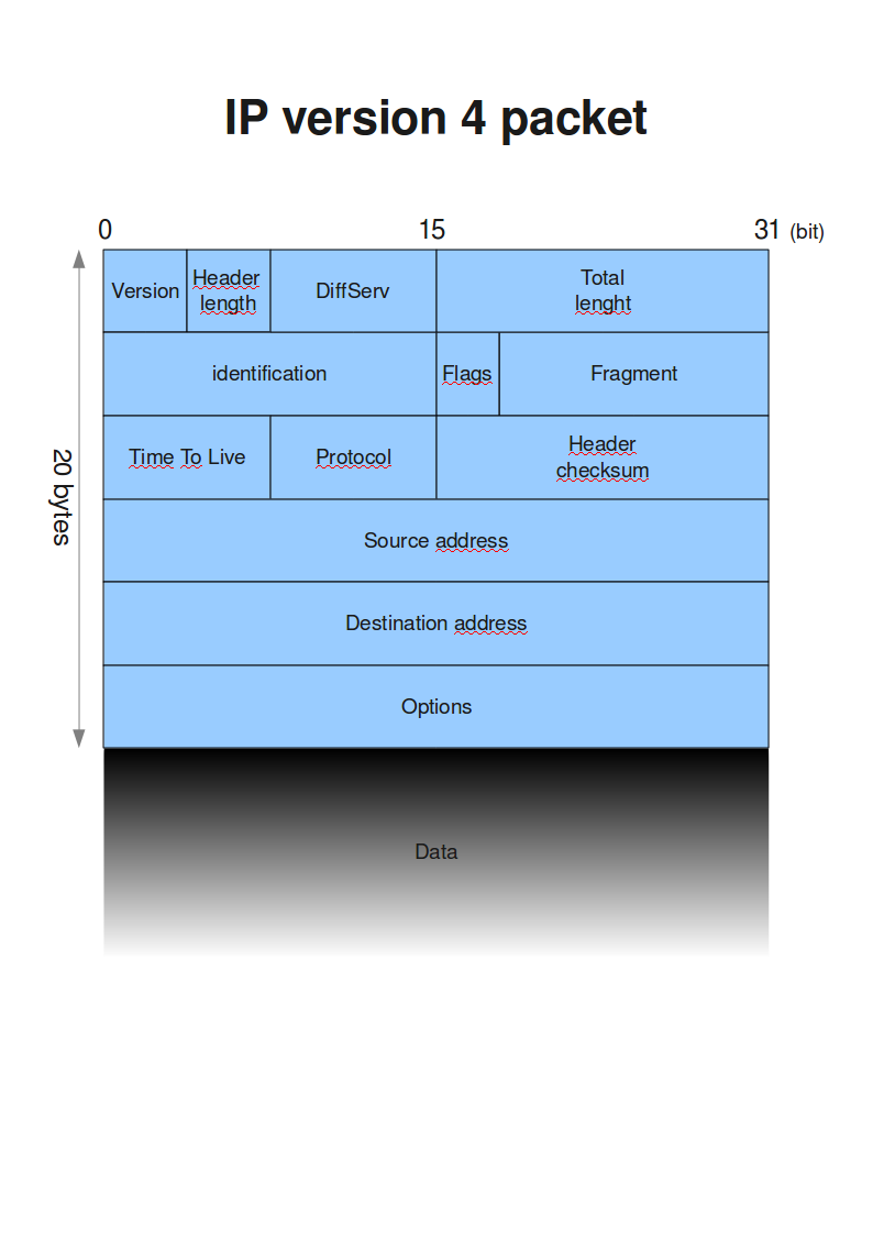 Diagram of an IP datagram